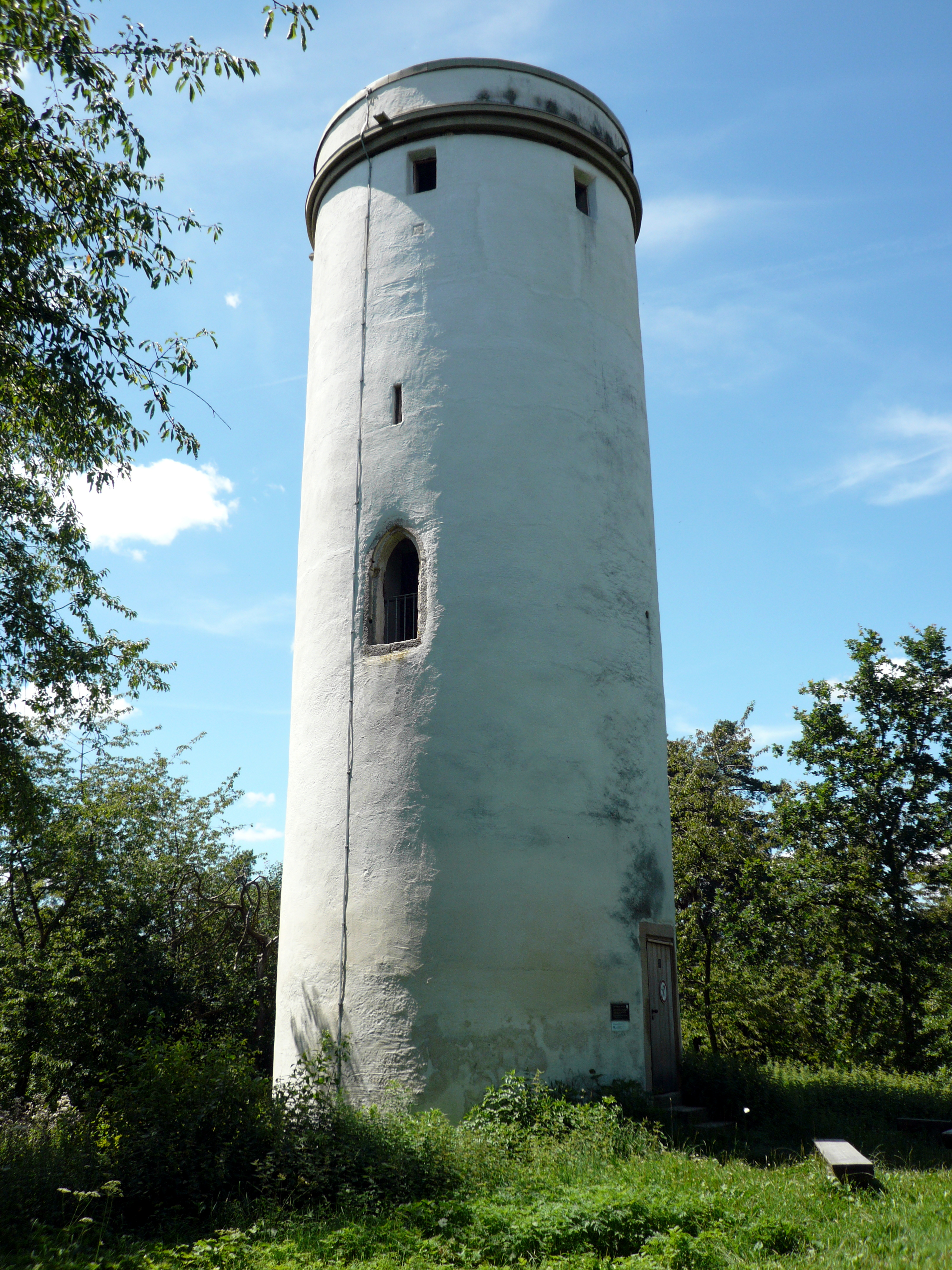 Heuberger Warte near Rottenburg